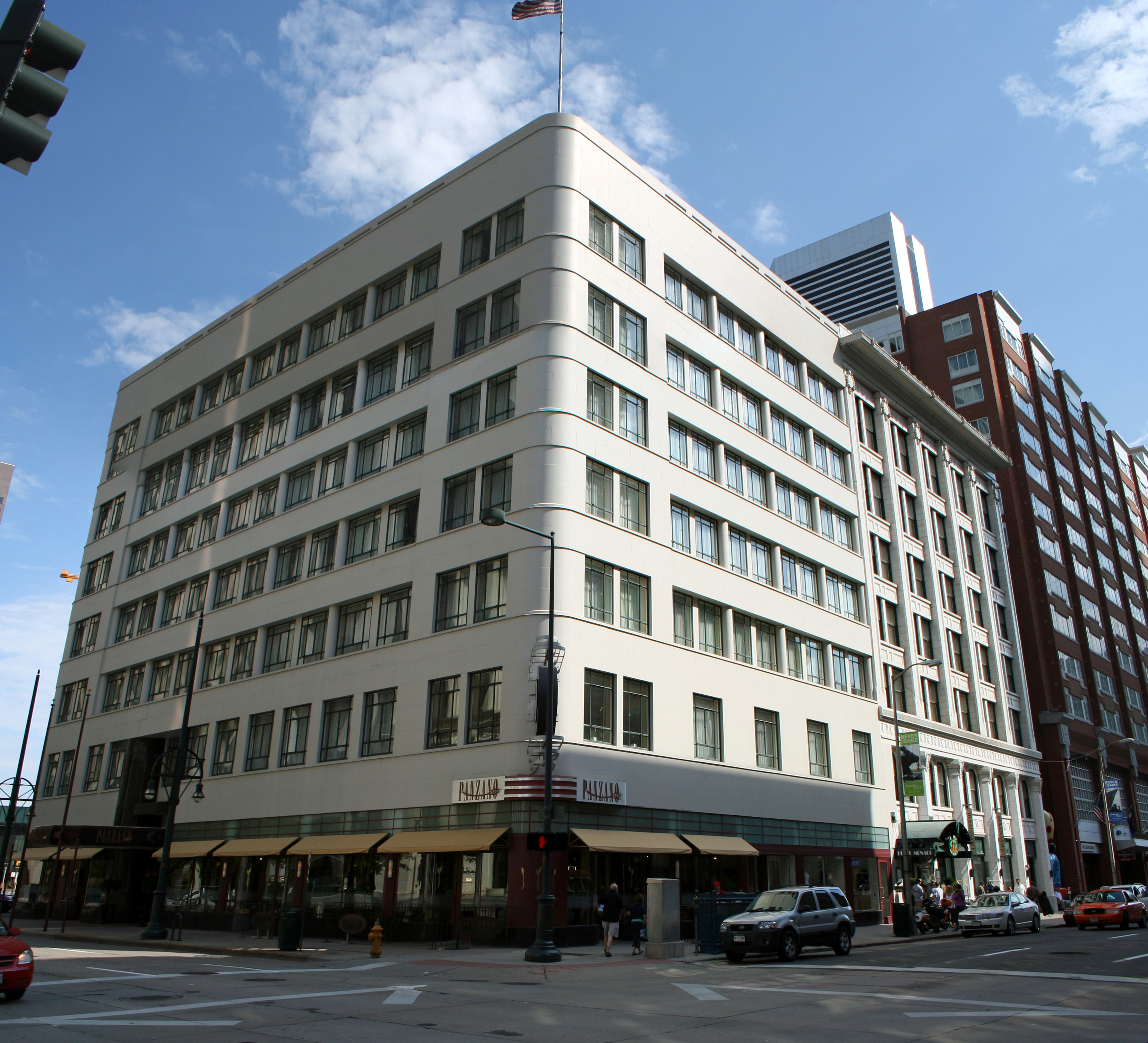 The Railway Exchange Addition and Railway Exchange New Building, located at 1715 Champa Street and 909 17th Street in Denver, Colorado